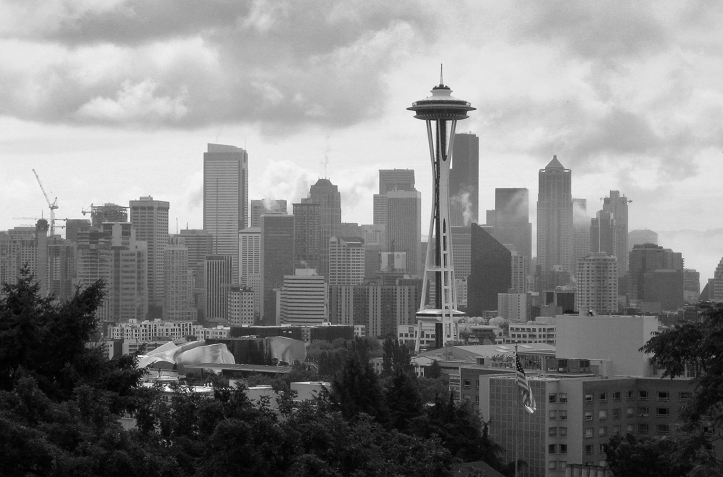 Downtown Seattle view from Kerry park